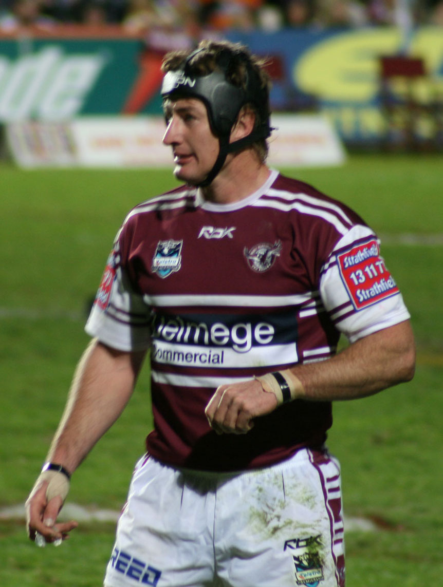 self taken pic at Manly's victory over West Tigers at Brookie Oval, 13th July (34, 4 - Go Eagles yay!)